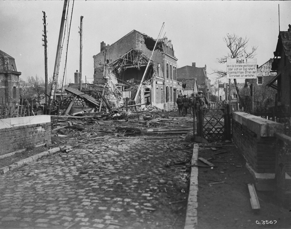 Canadian Patrol crossing the railway in Valenciennes, France, under heavy machine gun fire.